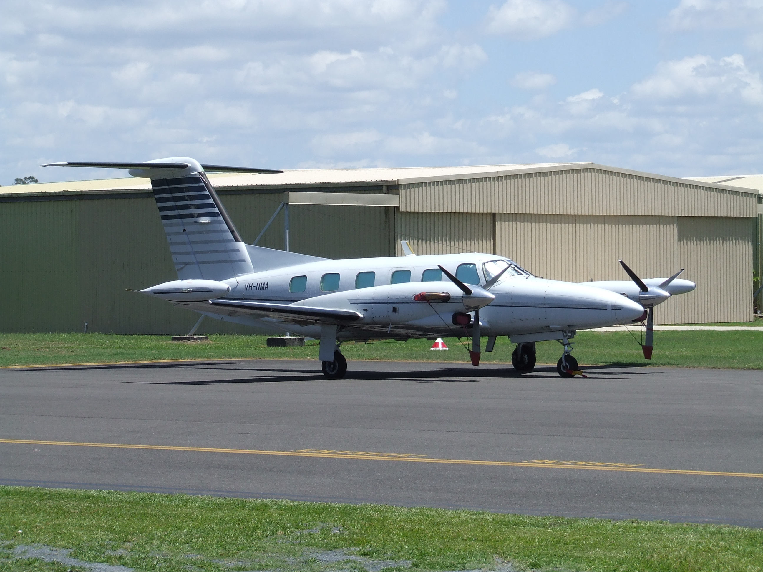 Piper PA-42-720 Cheyenne III VH-NMA at Ballina-Byron Gateway Airport